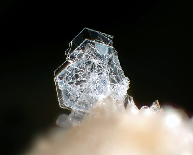 A common form of Tridymite, ultra thin colorless tabulars (image width: 1,1 mm) - Locality: Wannenköpfe, Ochtendung, Eifel region, Germany